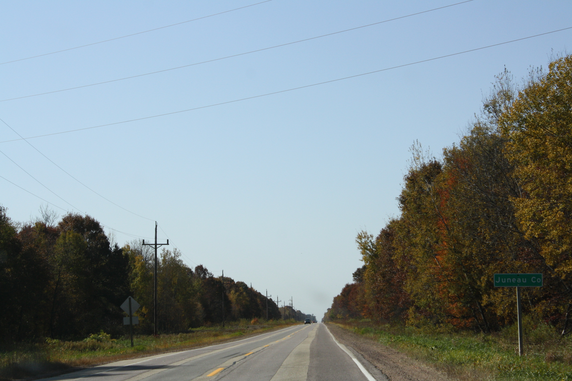 The sign for Juneau County, Wisconsin on Wisconsin Highway 173.